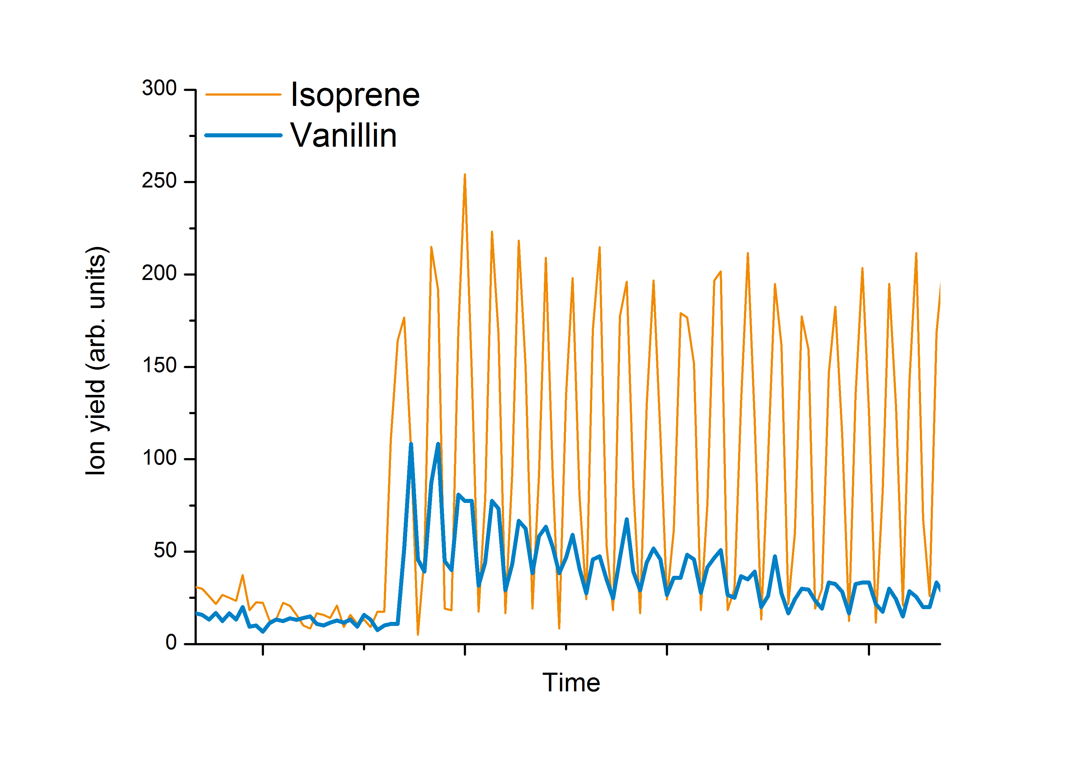 PTR-MS measurement (HS PTR-MS; IONICON Analytik, AUSTRIA) of person's breath after sipping a drink containing vanillin